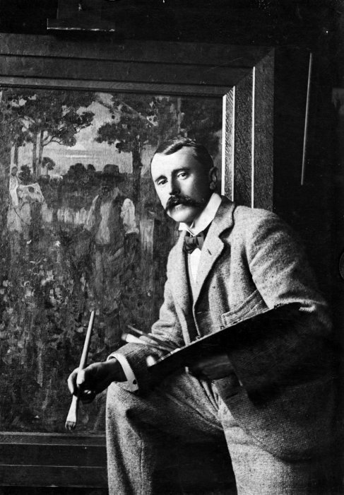 James M. Nairn with a palette and paintbrush, in front of his painting. Taken by an unknown photographer in the 1890s. The painting in the background is possibly `Tess at Silverstream'